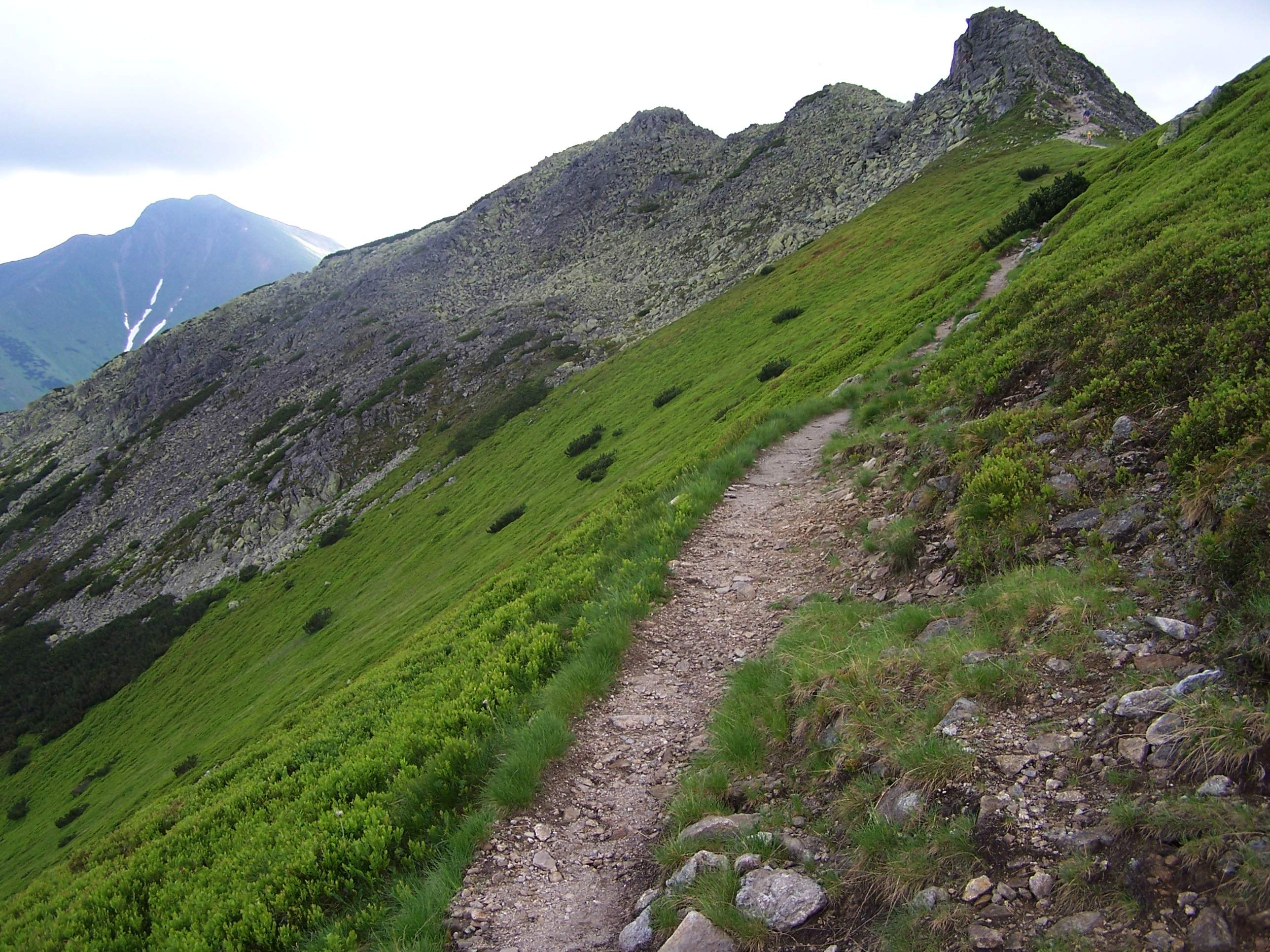 Ornak (West Tatra Mountains)